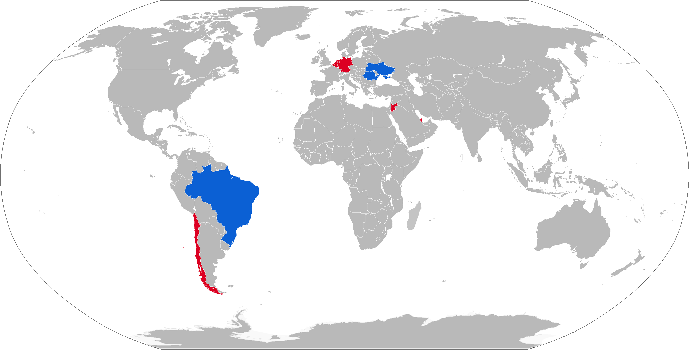 Map of Flakpanzer Gepard operators in blue with former operators in red